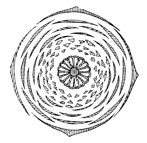 Flower diagram of Nymphaea species.